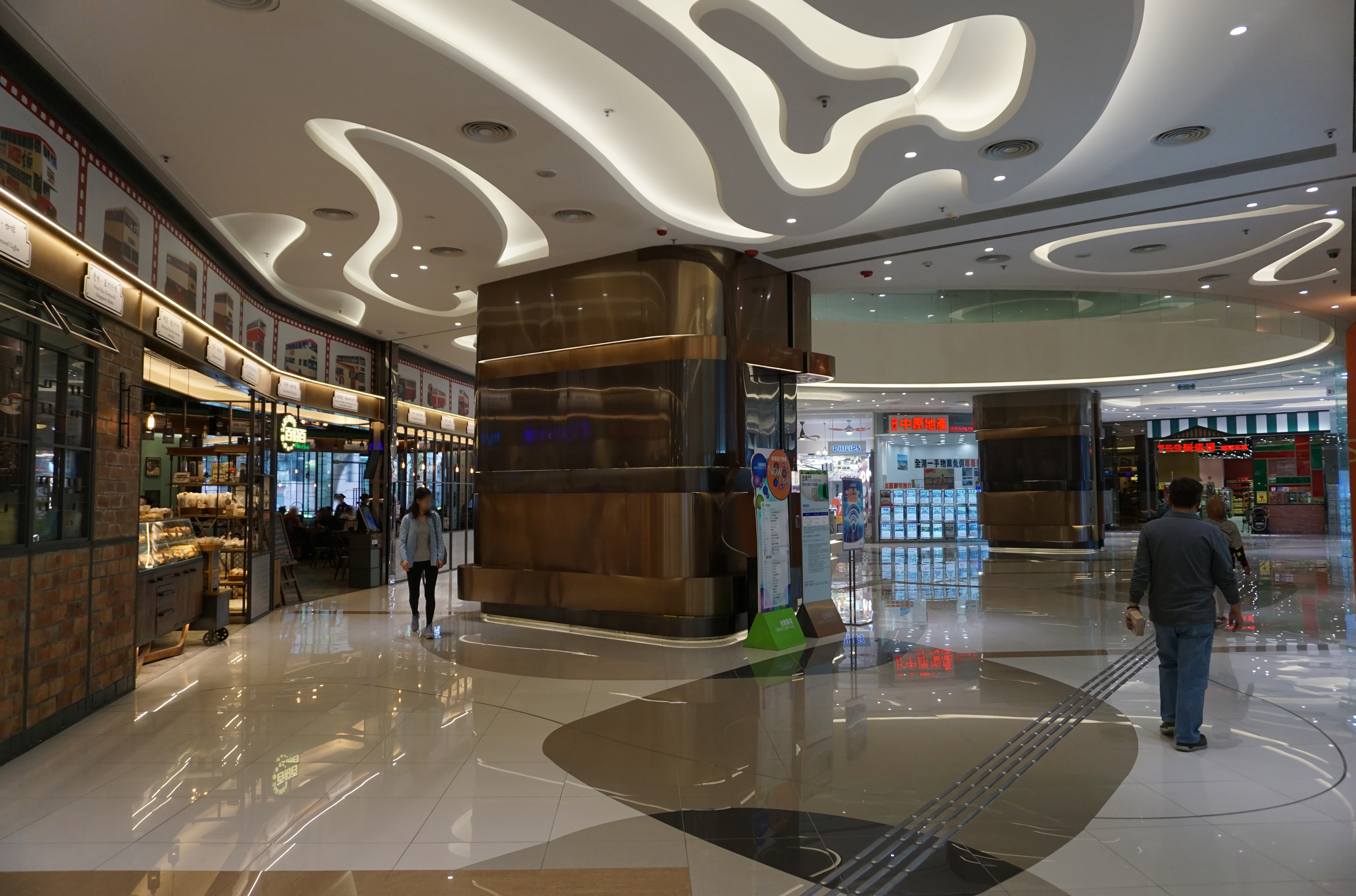 Green Code Plaza in Luen Wo Hui, Hong Kong.